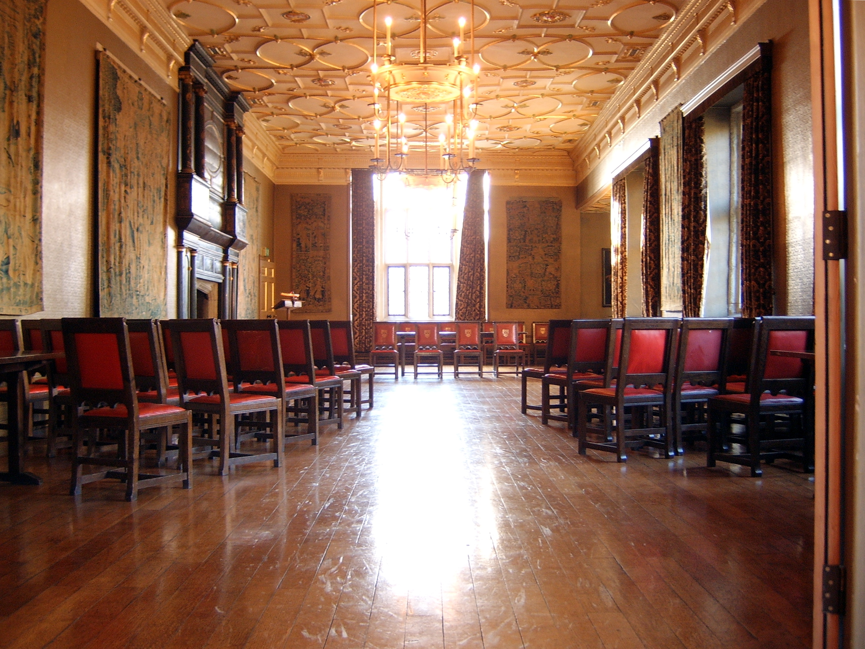 Great Chamber, Sutton's Hospital, Charterhouse.